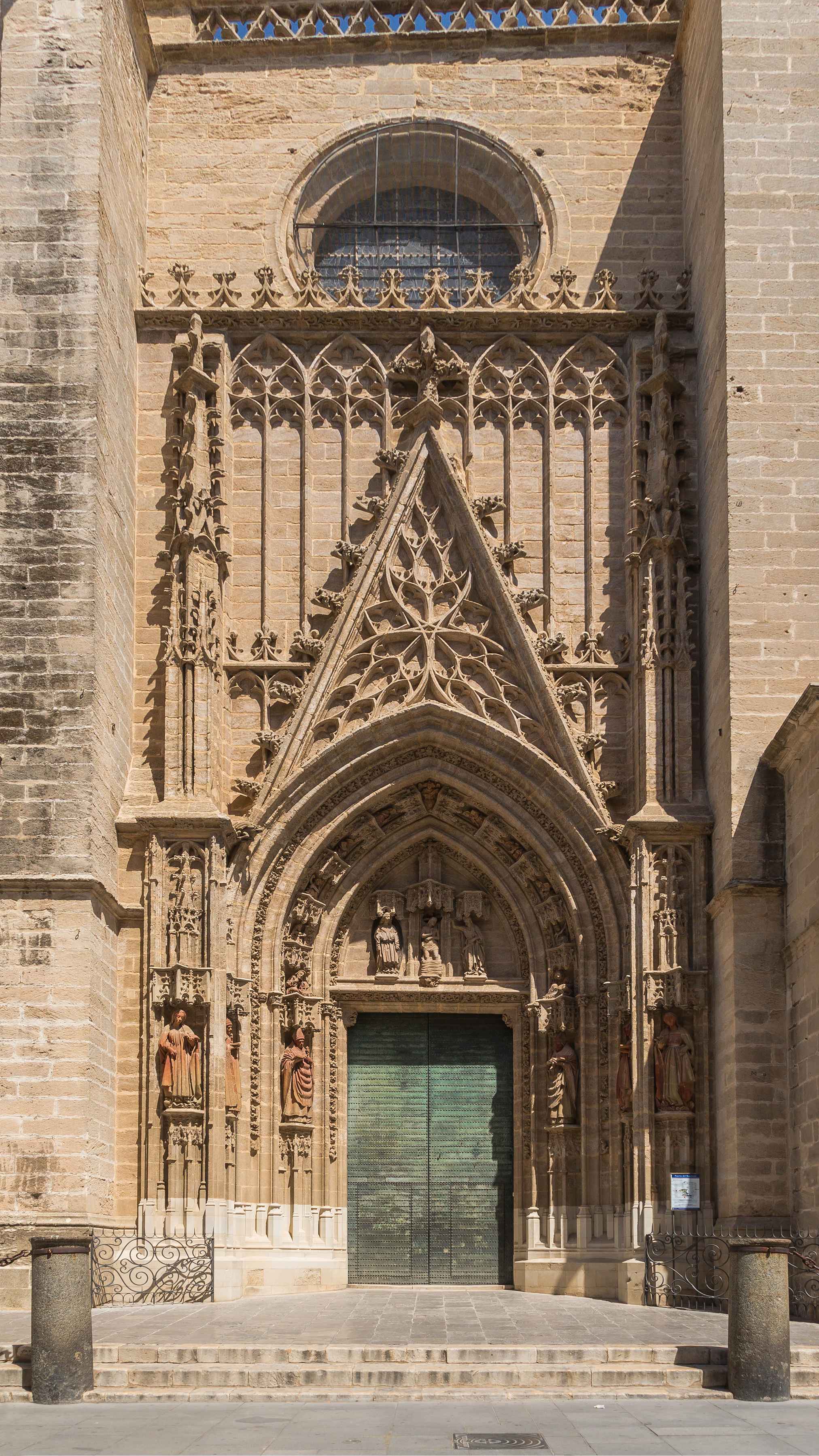 the "Gate of Baptism", from 1449, by architects Nicolás Martínez and Juan Normán. Lorenzo Mercadante de Bretaña made the terracotta statues, between 1464 & 1487. Tympanum shows the baptism of Jesus. Saints statues are Isidoro and Leandro, Justa and Rufina, Florentina an Fulgencio. Cathedral of Seville, Spain.